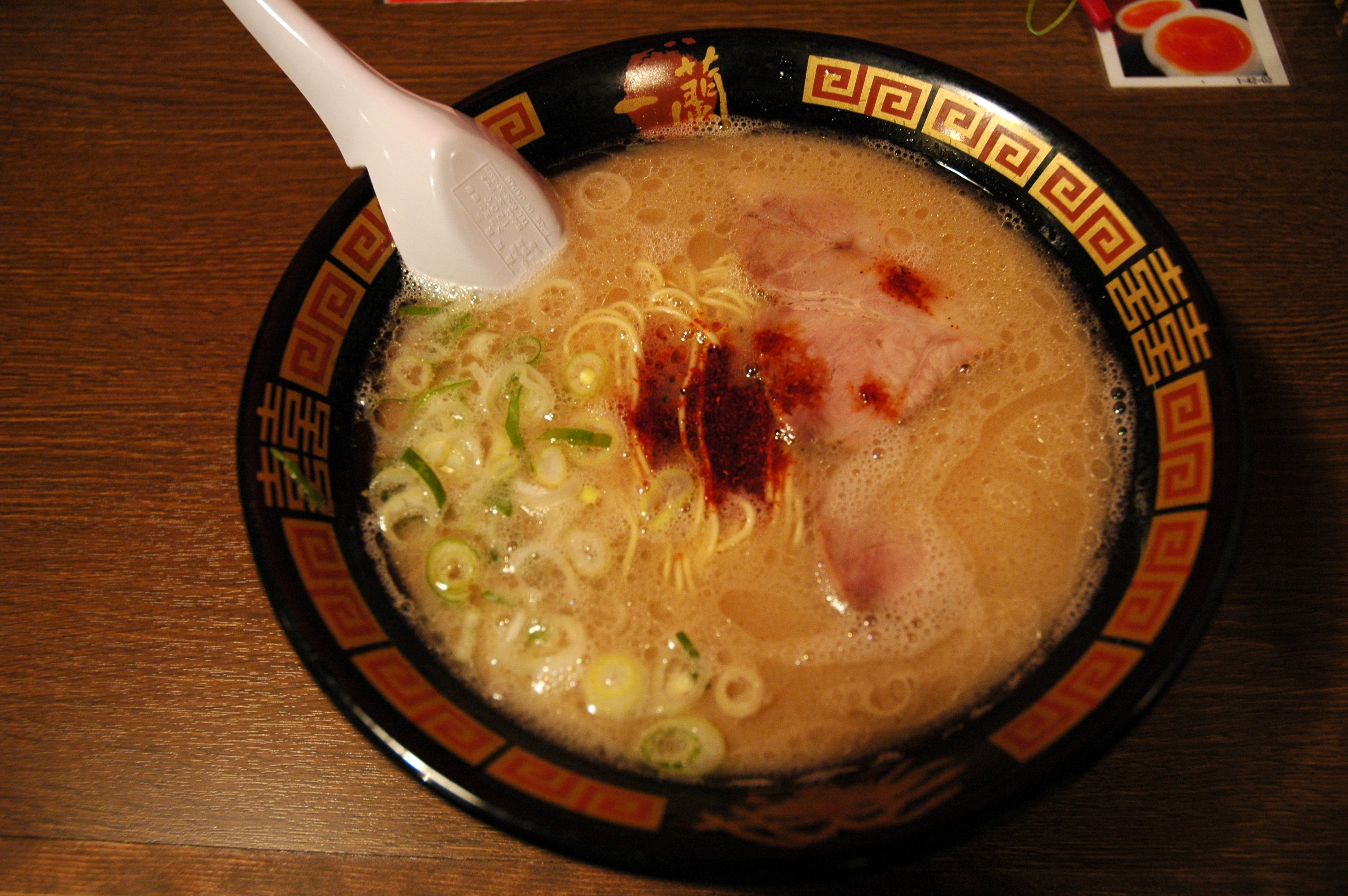 Tonkotsu ramen at Ichiran (Nakasu-Kawabata shop).